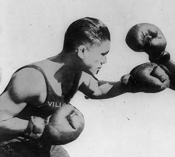 Flyweight boxing champion of the world, Pancho Villa. (excerpt from the original text)